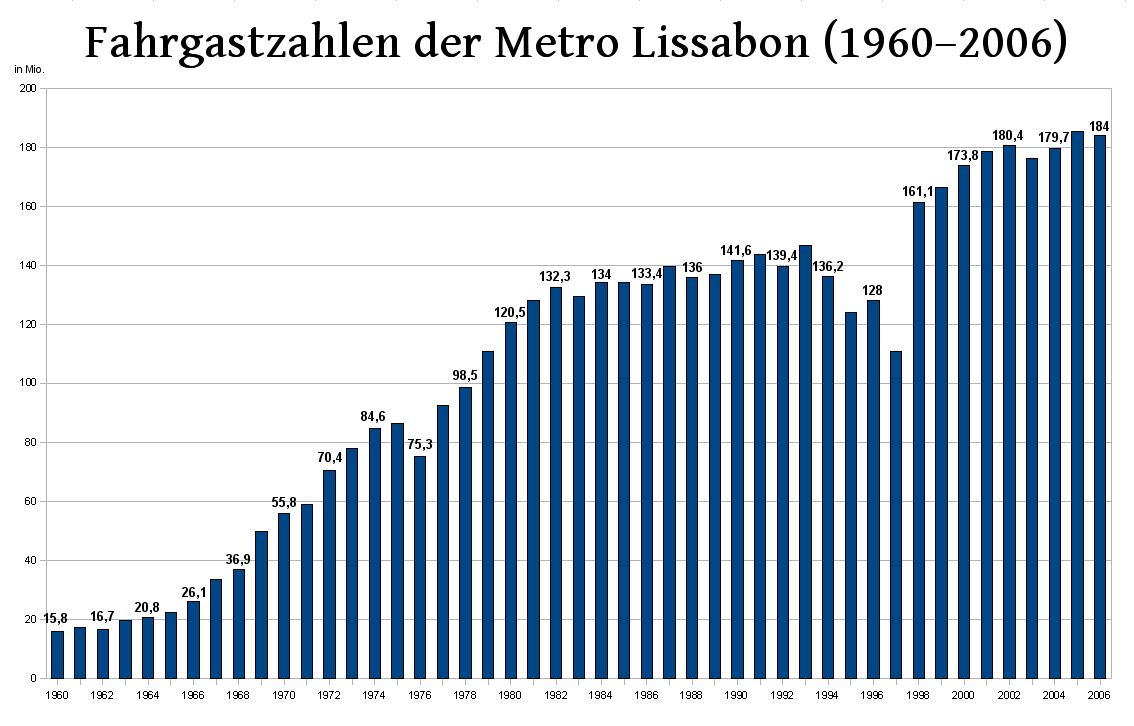 ridership of the Lisbon Metro between 1960 and 2006; data from metrolisboa.pt; german labeled